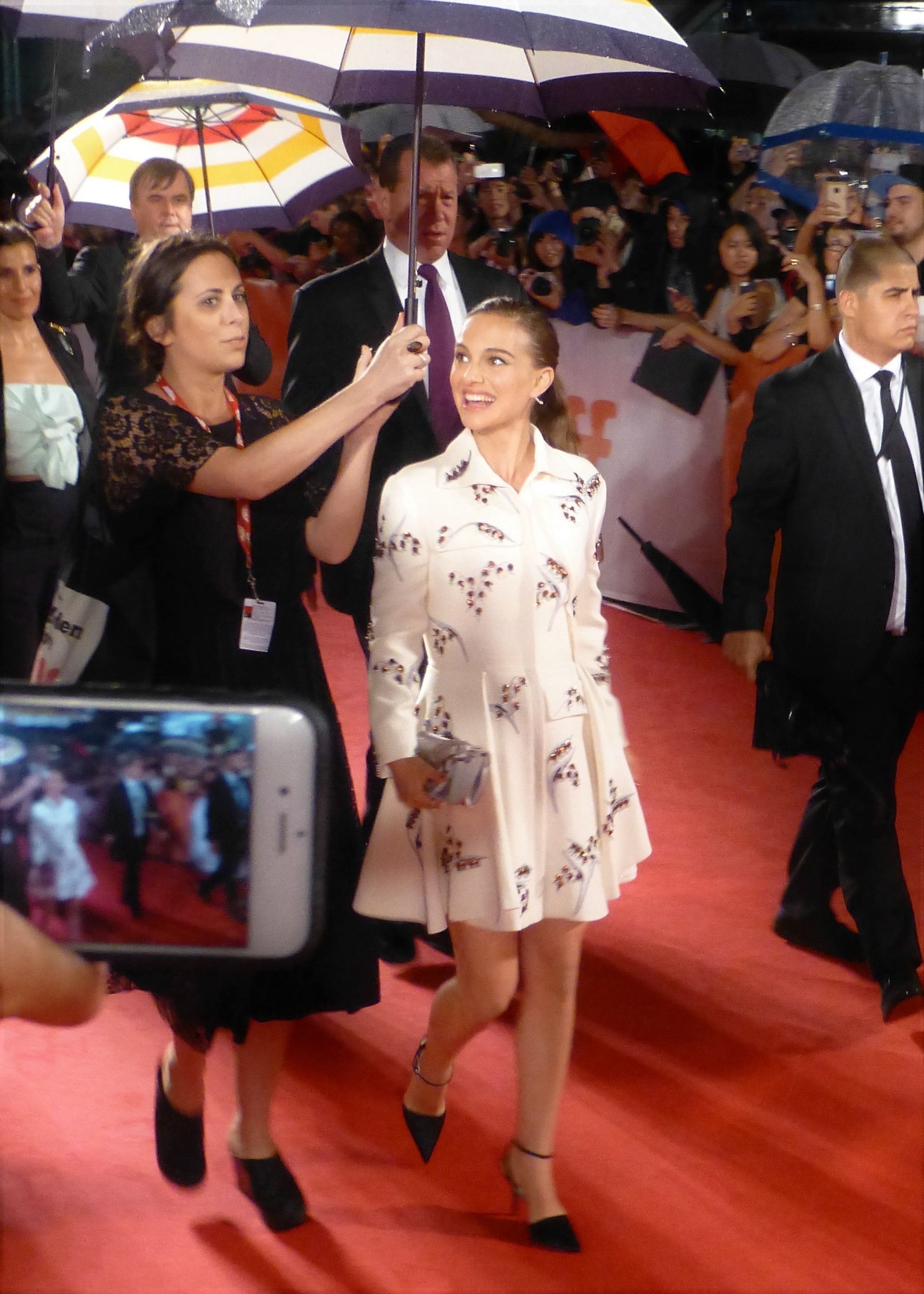 Natalie Portman at the premiere of Planetarium, 2016 Toronto Film Festival